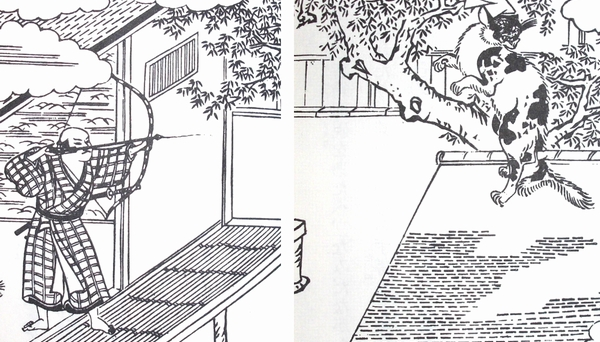 the monster cat (猫人を悩ますこと) from the Yamato-kaii-ki (大和怪異記)